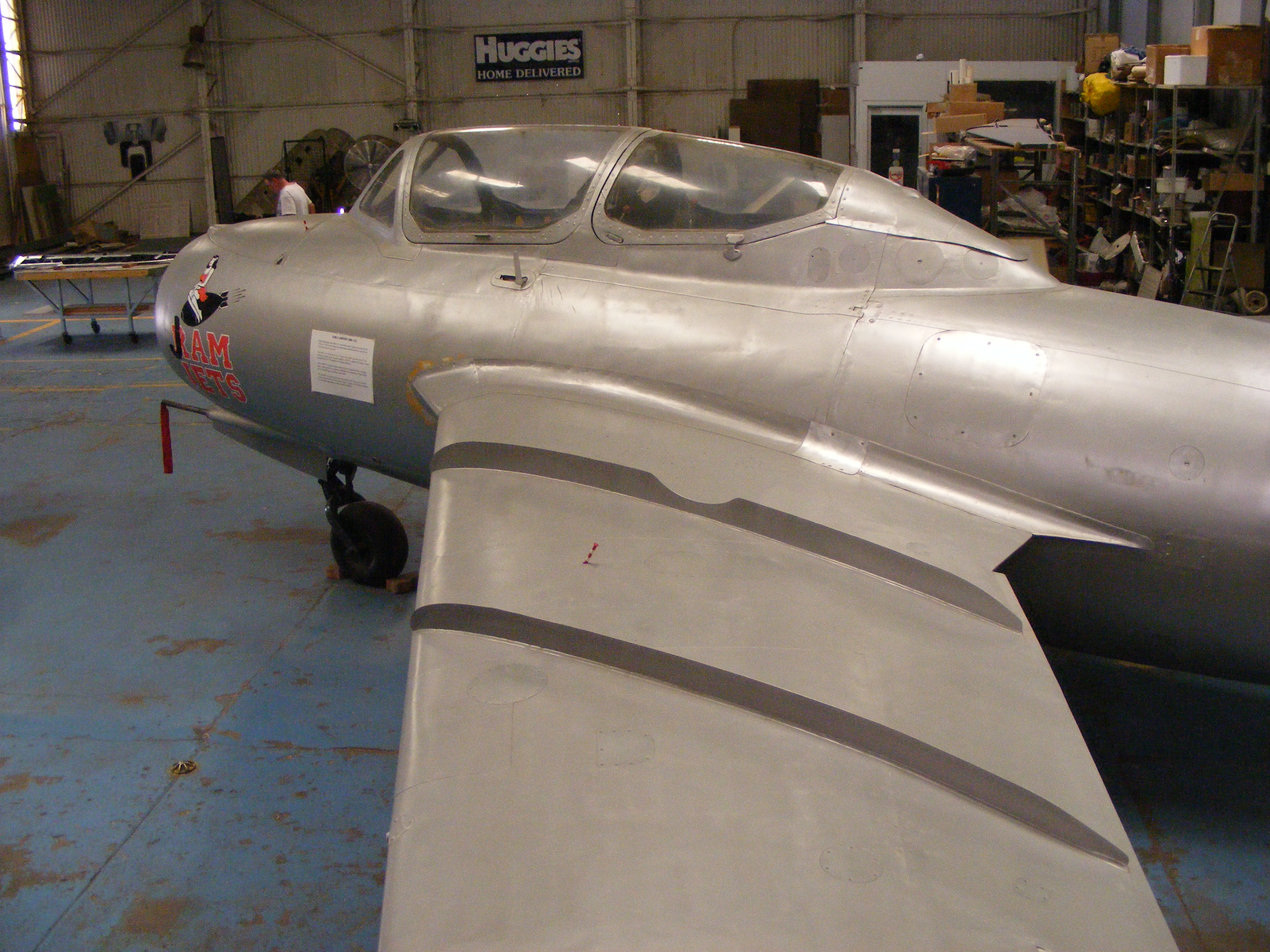 SBLim-2 (a Polish trainer variant of MiG-15bis) serial number 636. On static display at the the Classic Jets Fighter Museum, Parafield airport, Adelaide, South Australia.